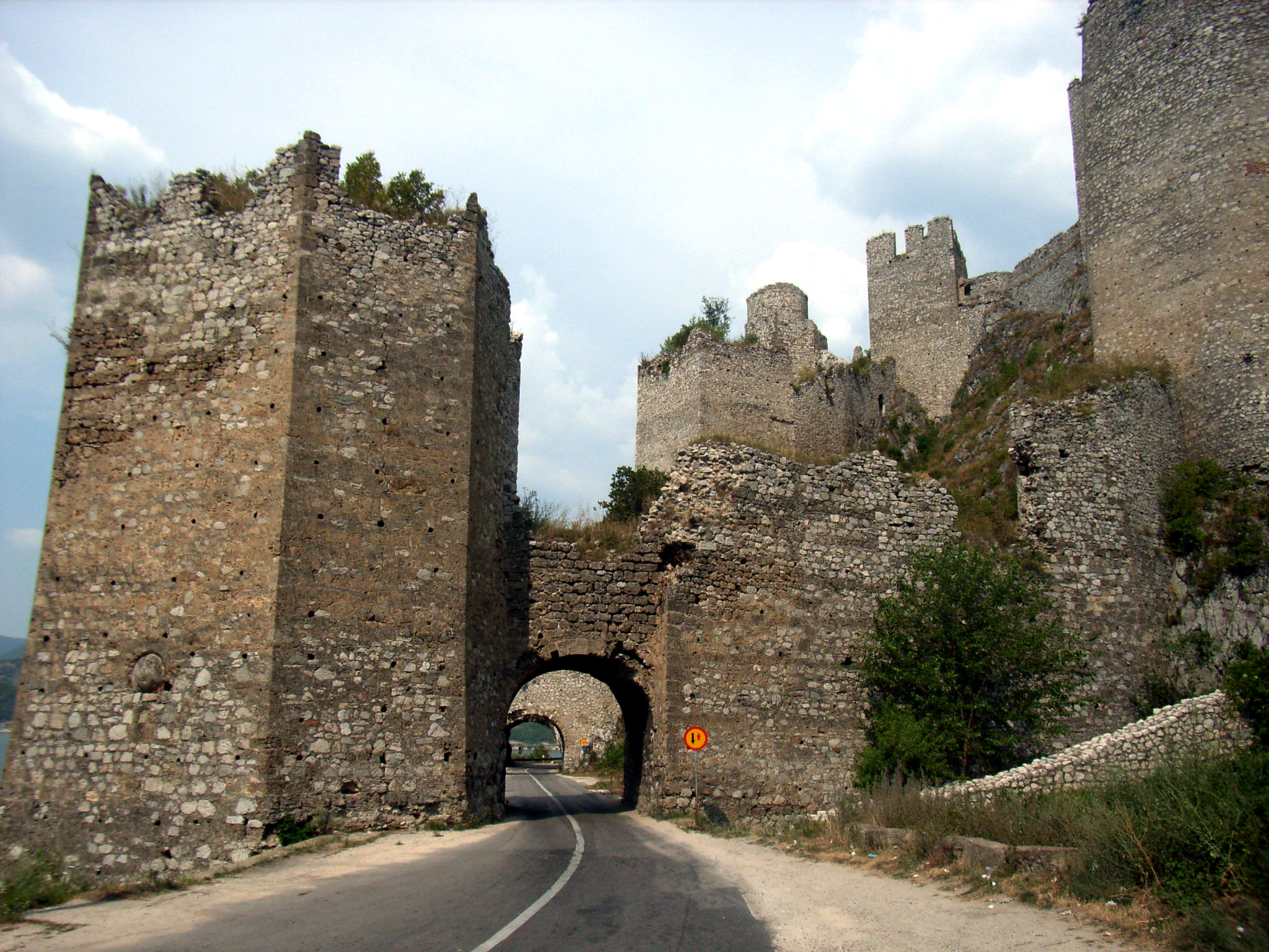 Golubac fortress in Eastern Serbia.